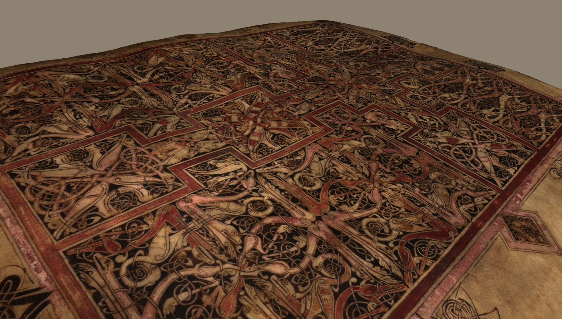 3D rendering of the cross-carpet page of the St Chad Gospels (page 220). Circa 730. For more information, see Manuscripts of Licfhield Cathedral